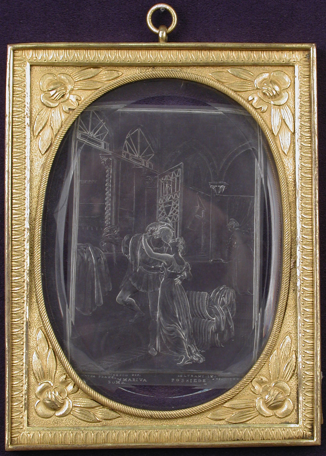 Italian; Intaglio; Natural Substances-Rock Crystal